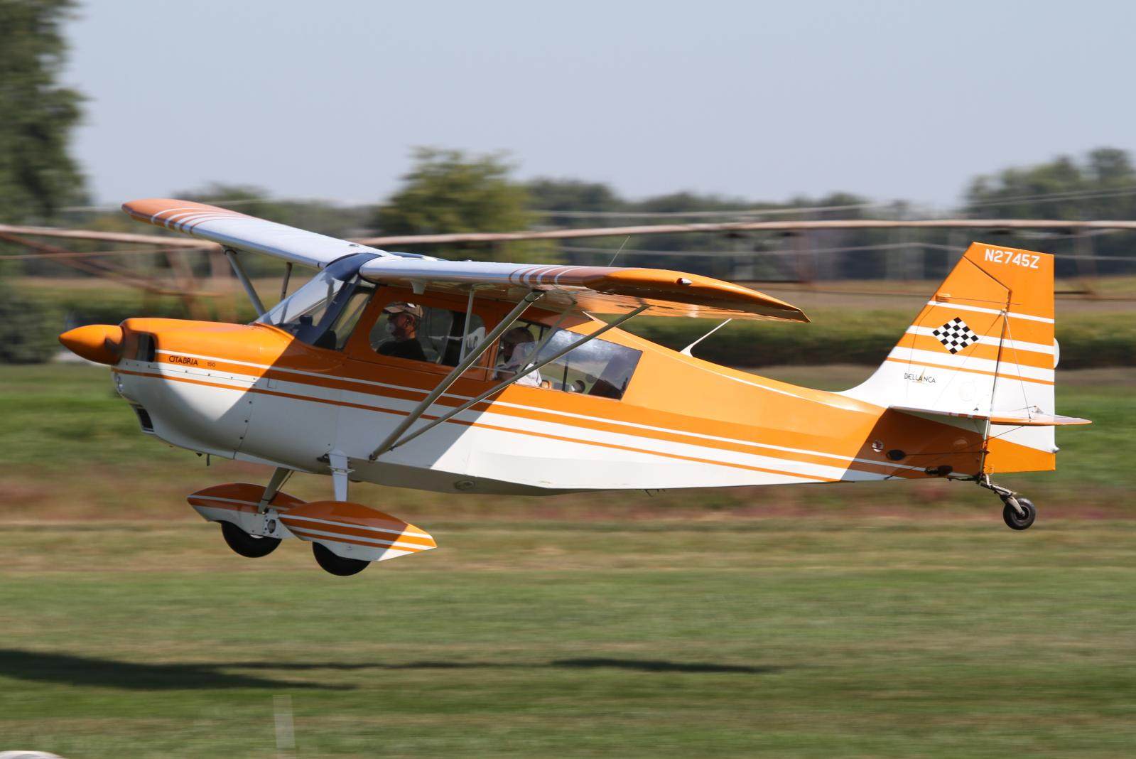 1978 Bellanca 7GCAA C/N 357-78